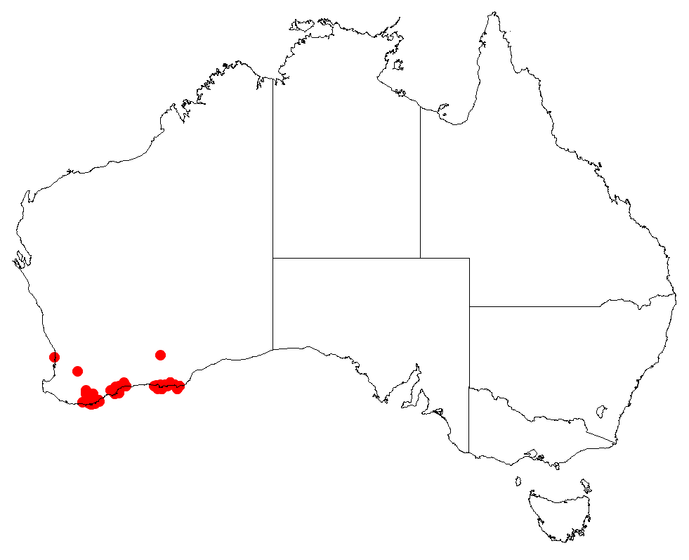 Bossiaea dentata Occurrence data downloaded 11 September 2018 from Australasian Virtual Herbarium